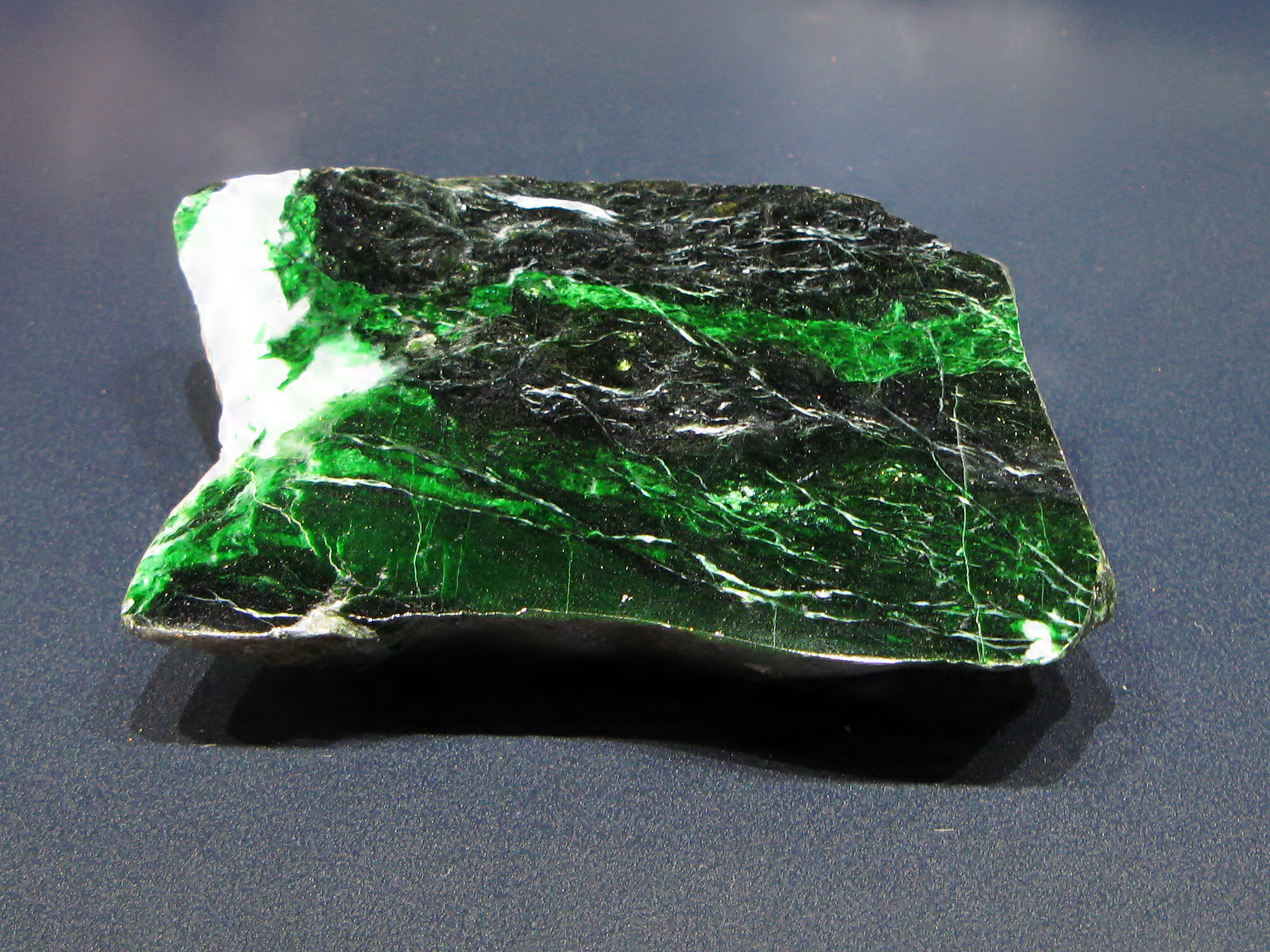 Yünnan-Jadeite - Locality: China - Exposed in the Ruhr Museum at Zollverein Coal Mine Industrial Complex